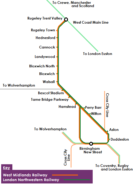 Map of the Chase Line under West Midlands Trains